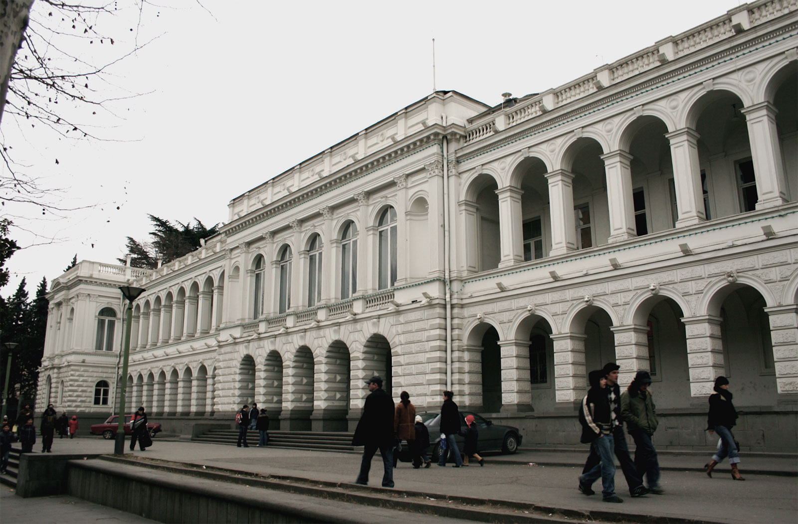 Tbilisi Youth Palace, formerly the Palace of Viceroy of Caucasia. 6 Rustaveli Ave., Tbilisi, Georgia. Built in 1845-47; renovated in 1858-59 and completely rebuilt in 1865-69